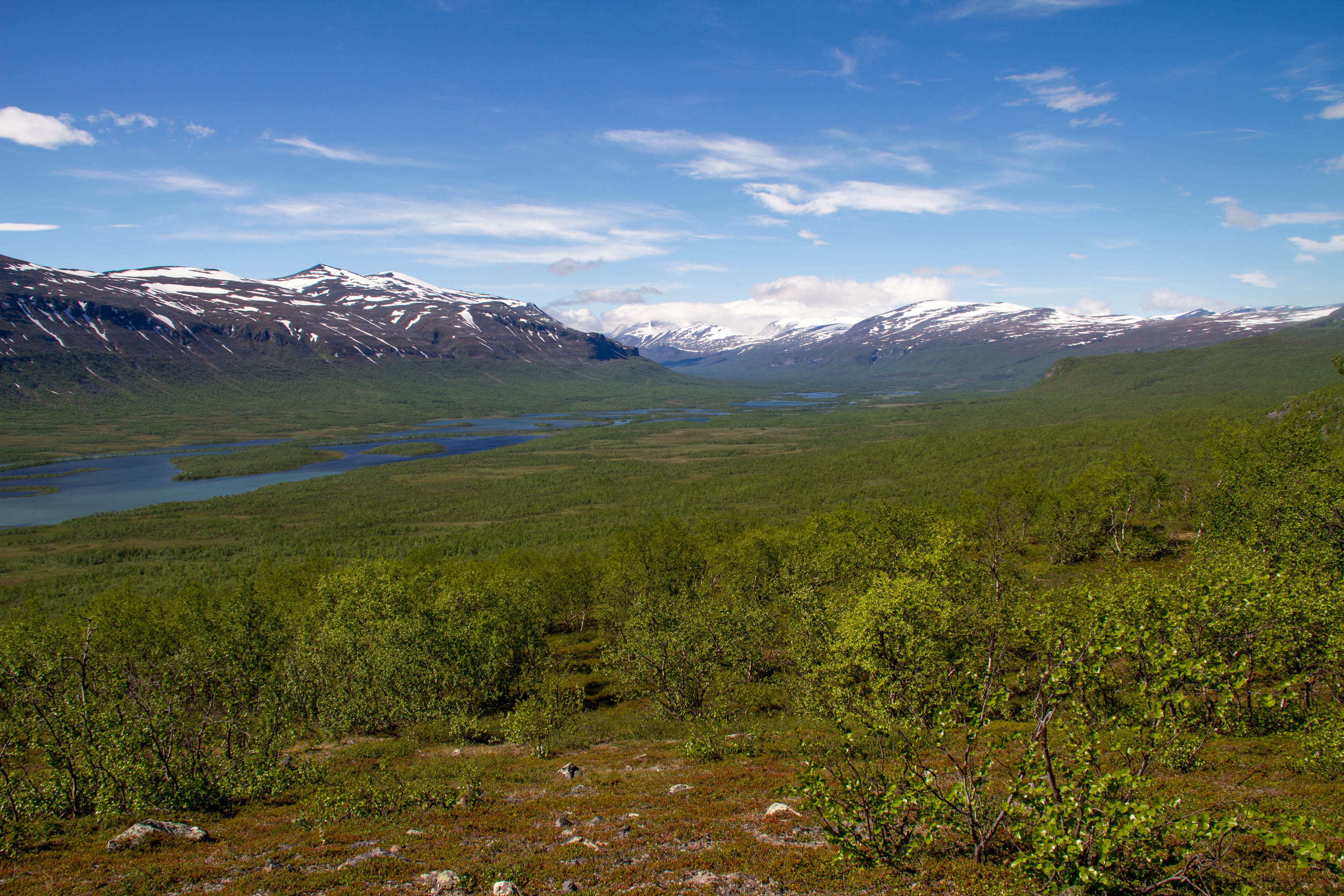 The valley Visttasvággi/Vistasvagge/Vistasdalen in Norrbotten county, Sweden.